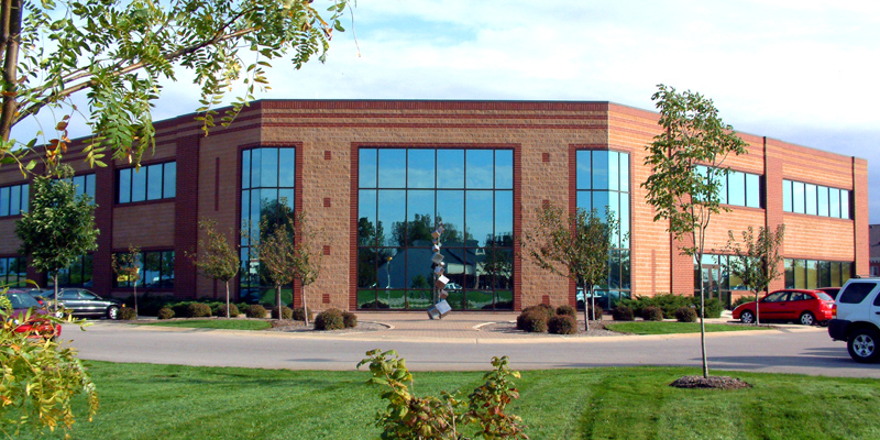 The Vistech 1 Building in the Purdue Research Park, at 1435 Win Hentschel Boulevard, West Lafayette, Indiana.